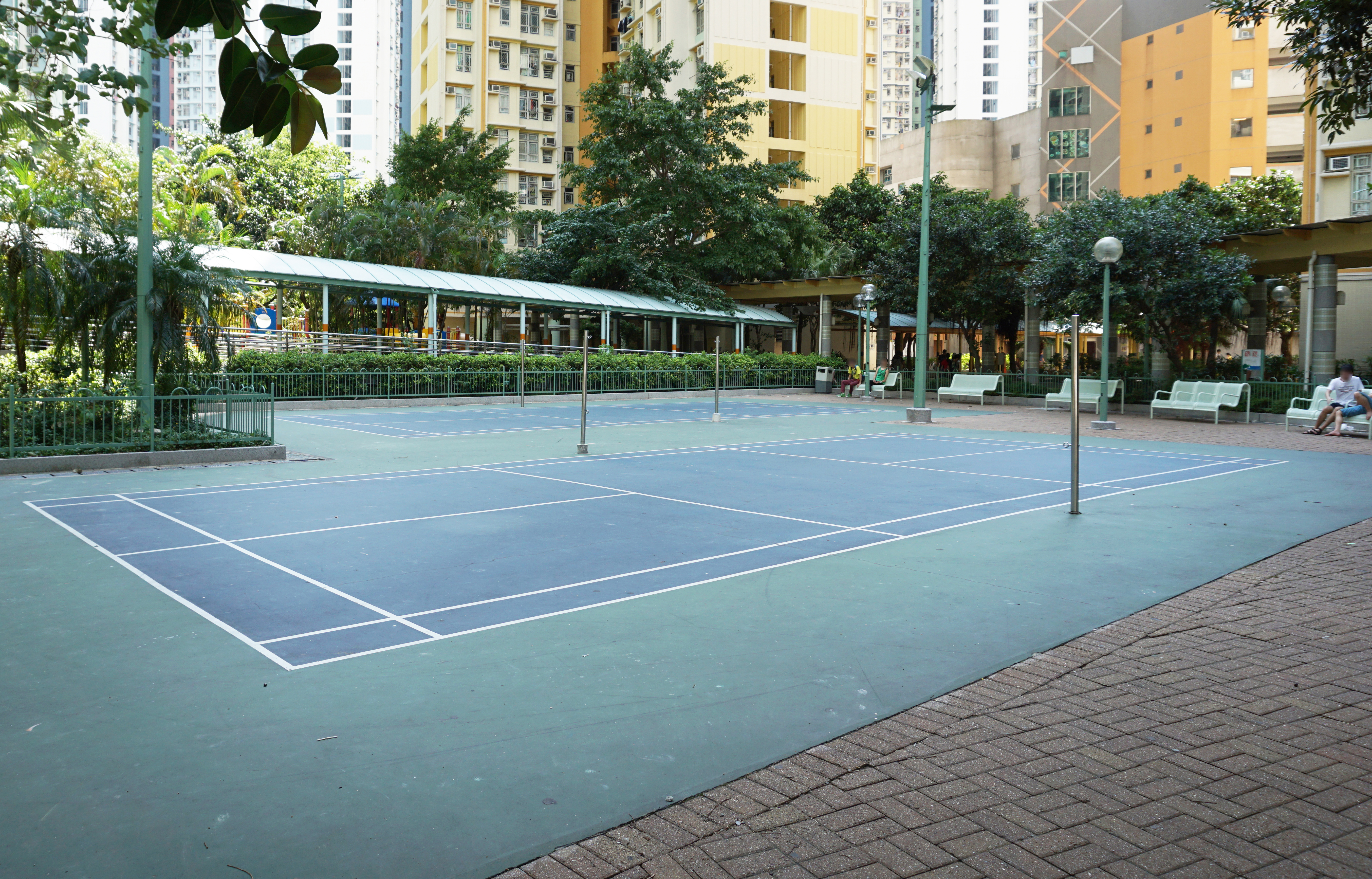 Yat Tung Estate in Tung Chung, Hong Kong.